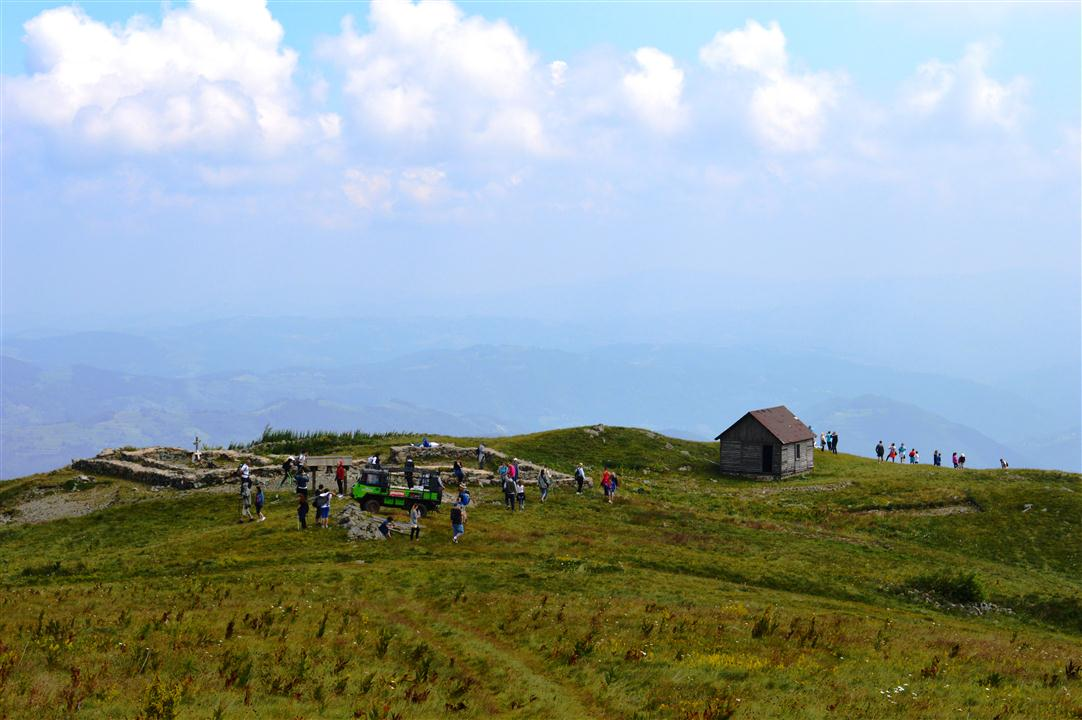 Raska Municipality - Kopaonik